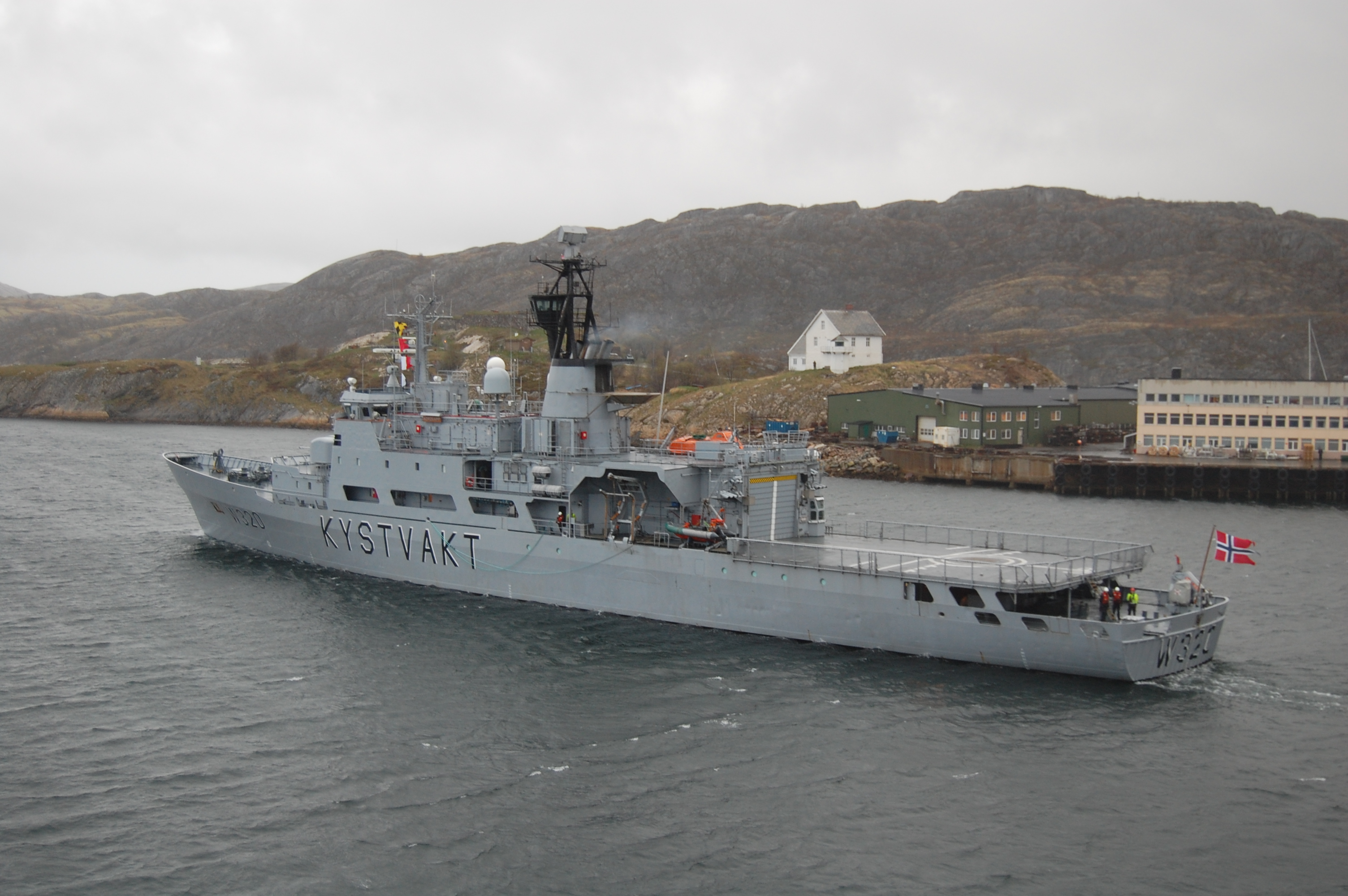 The Norwegian offshore patrol vessel KV Nordkapp in Bodø.